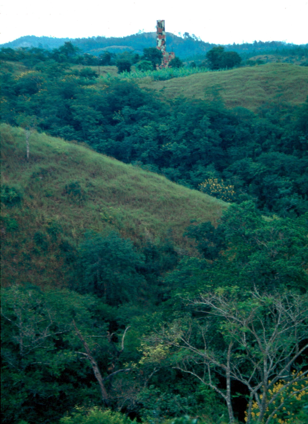 A border watch tower to control illegal immigration from Haiti located in the Cordillera Central of the Dominican Republic.